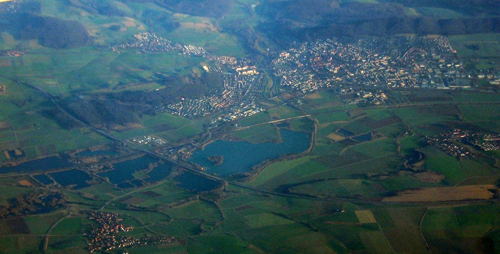 Northeim and Northeimer Seenplatte, Lower Saxony, Germany. Viewing direction approximately east.